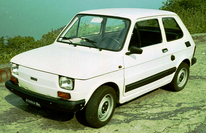 Fiat 126 post facelift along the Amalfi Coast near Sorrento